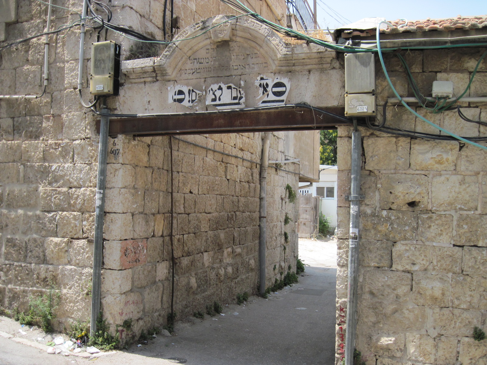 Batei Vitenberg, Jerusalem